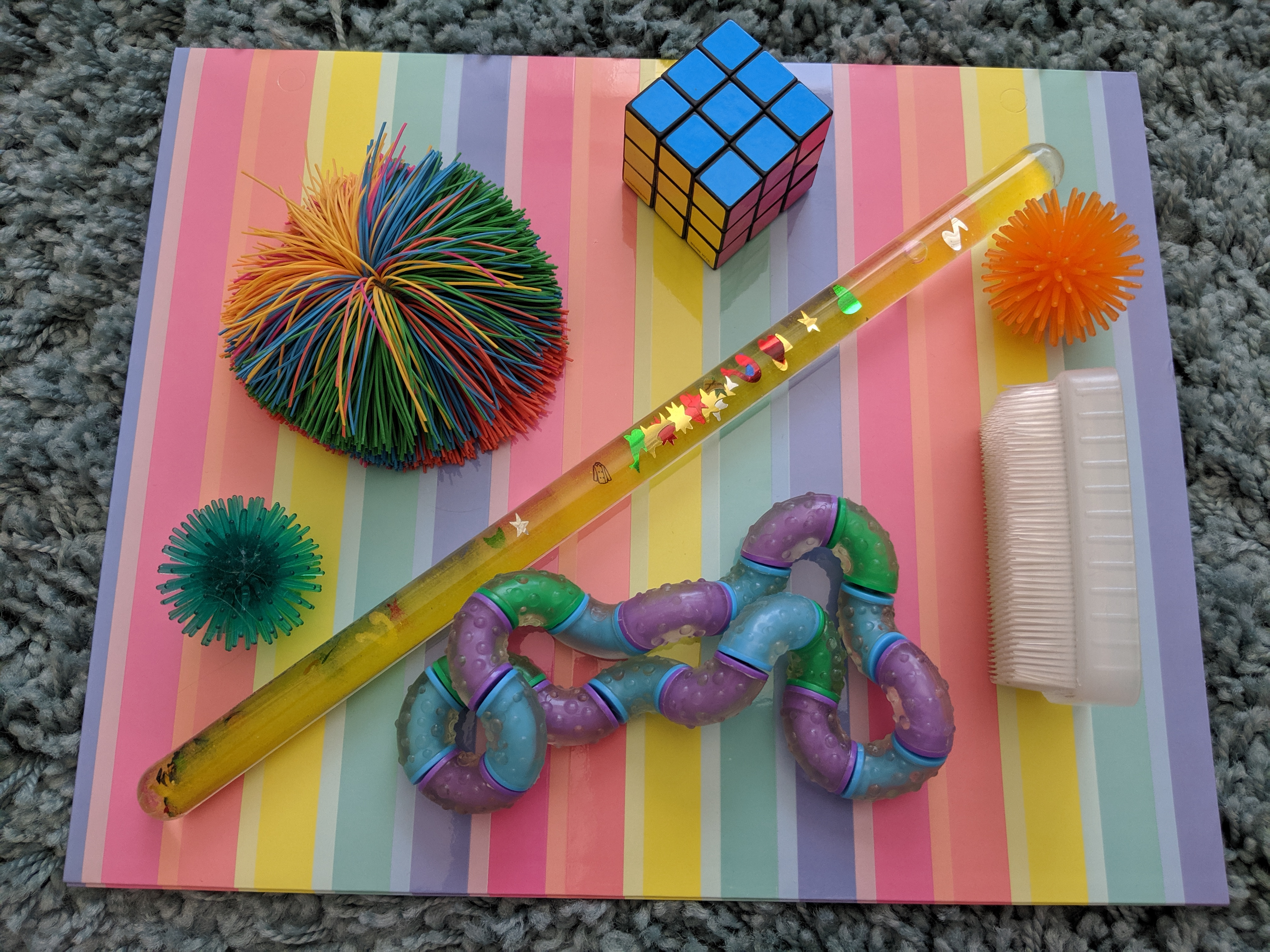 Fidgeting is beneficial and can improve focus in autistic people and people with ADHD. Fidget toys offer a quiet and engaging way to fidget.